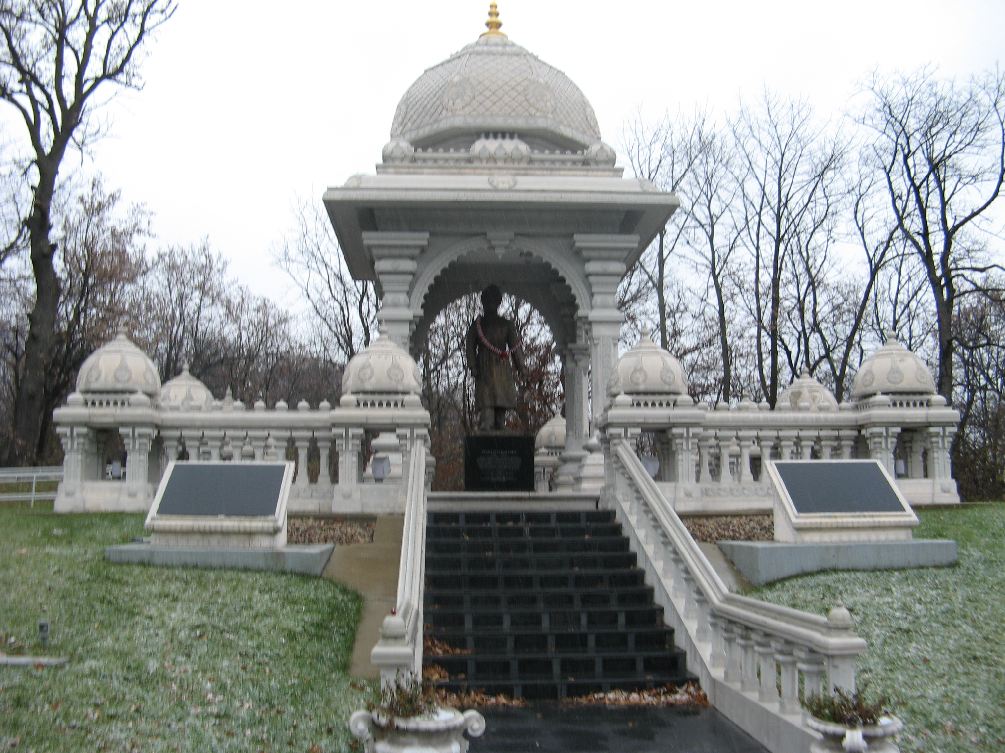 The Swami Vivekananda Shrine-Hindu Temple of Greater Chicago